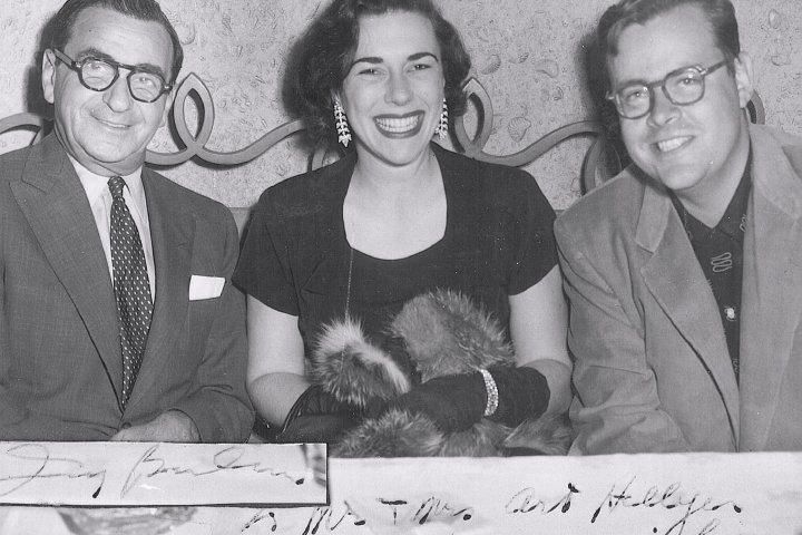 Art and Elaine Hellyer doing a dinner interview with famous composer Irving Berlin